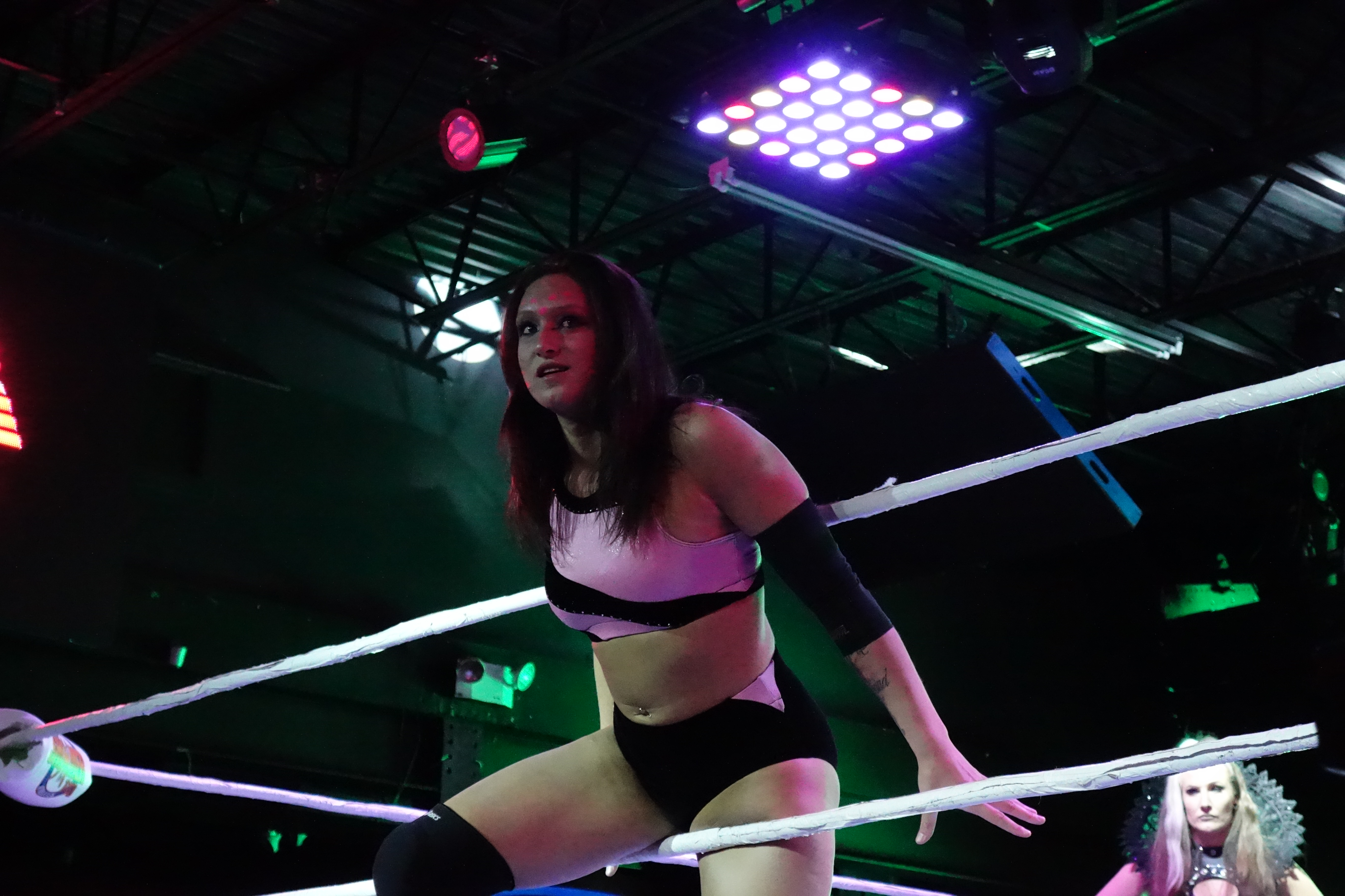 Kris Statlander